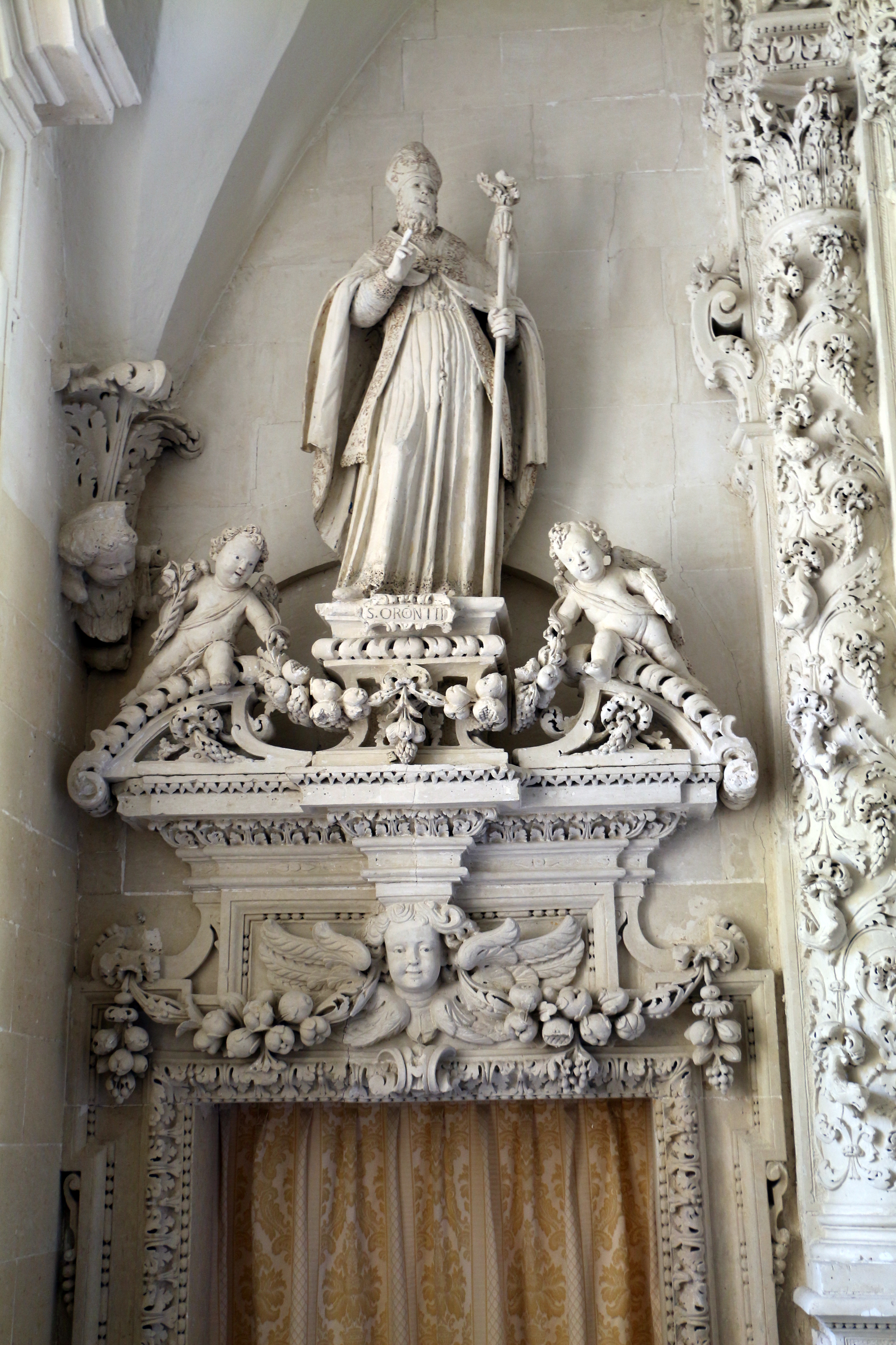 Museo Diocesano (Lecce)